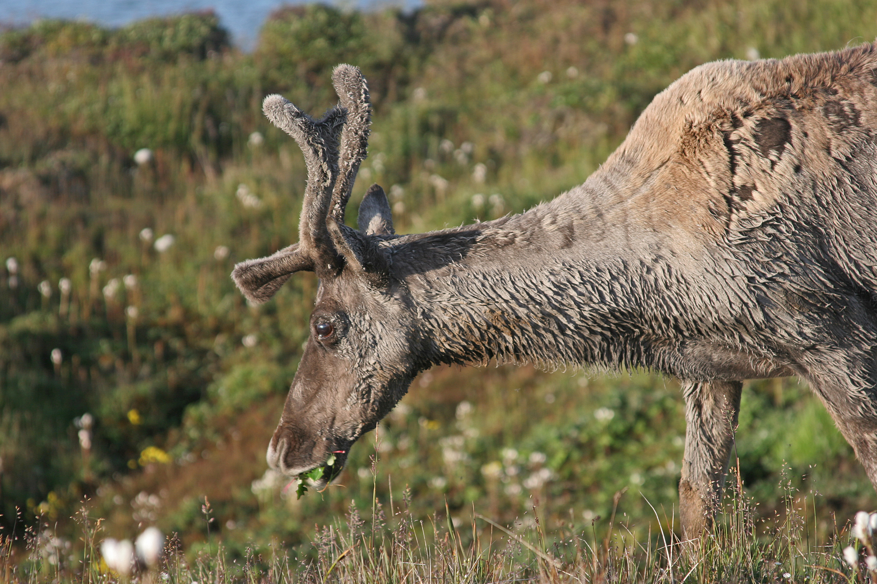 From the My Public Lands Magazine, Summer 2014: "A Cariboon for Caribou." Public lands in Alaska are home to more than half of the nation's caribou. story by Erin Curtis, BLM Alaska photo by Jacob W. Frank, National Park Service Read the story